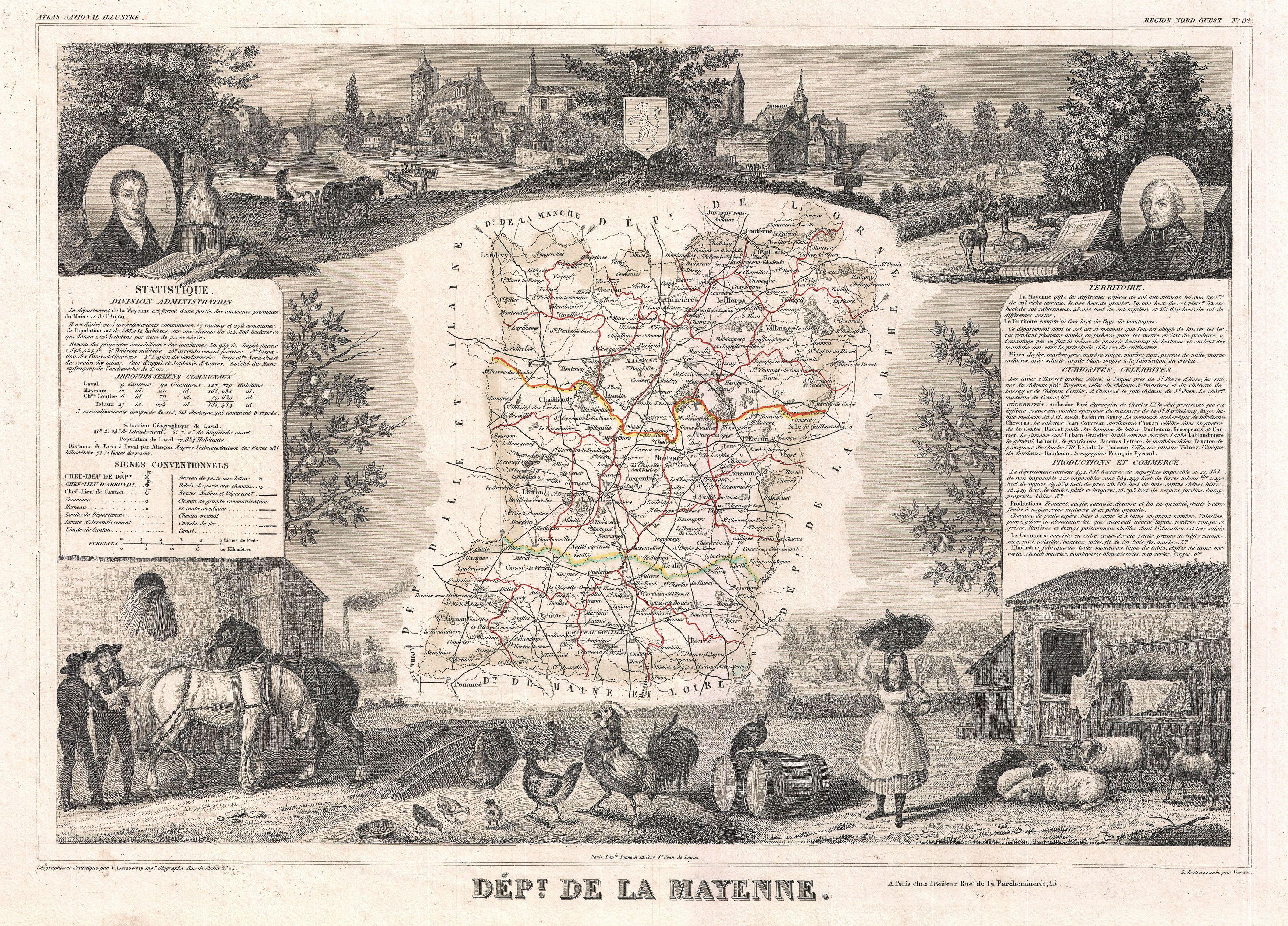 This is a fascinating 1852 map of the French department of Mayenne, France. This area is part of the Loire Valley wine region. The map proper is surrounded by elaborate decorative engravings designed to illustrate both the natural beauty and trade richness of the land. There is a short textual history of the regions depicted on both the left and right sides of the map. Published by V. Levasseur in the 1852 edition of his Atlas National de la France Illustree.